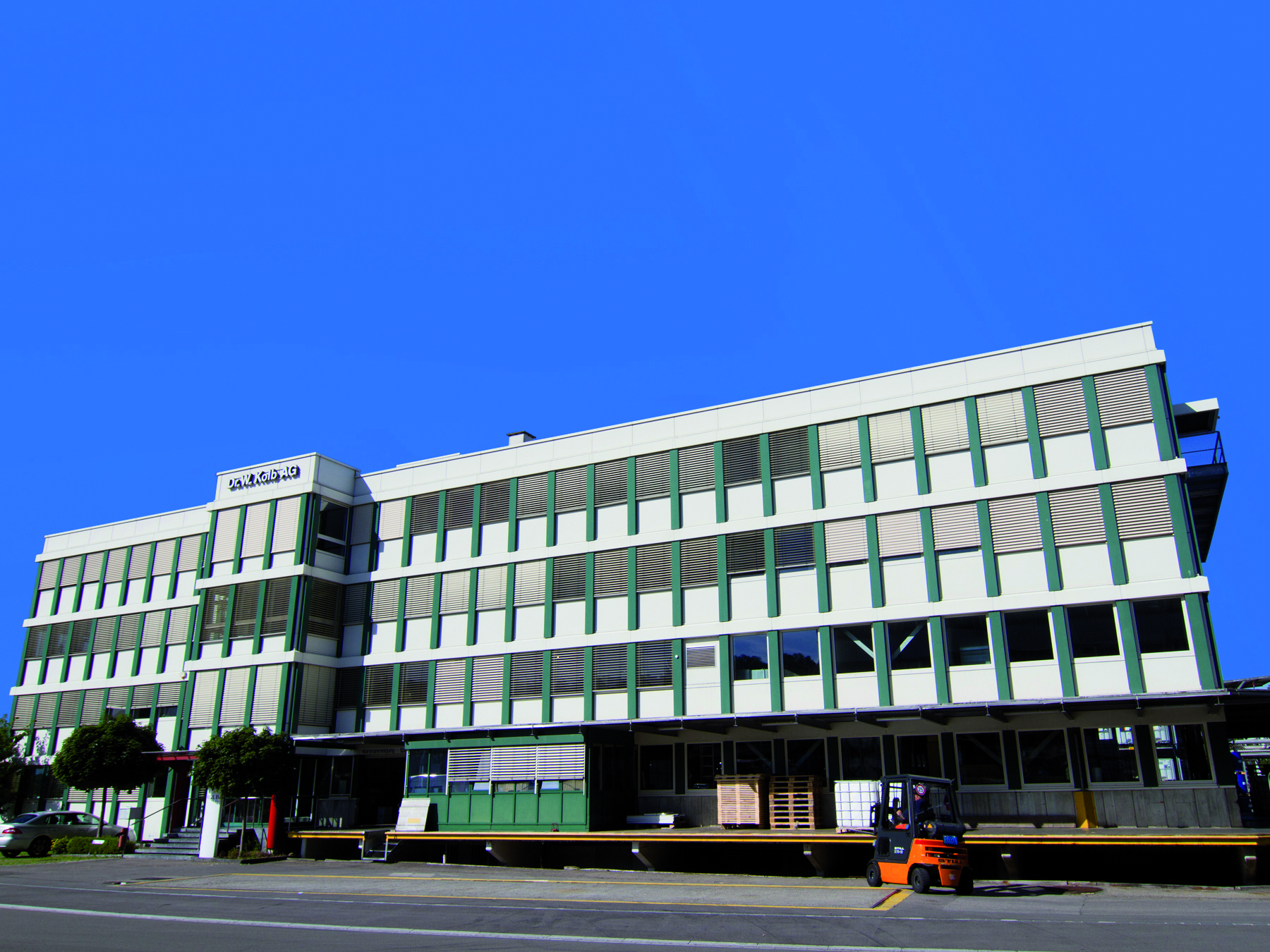 Kolb Distributino Ltd. in Hedingen